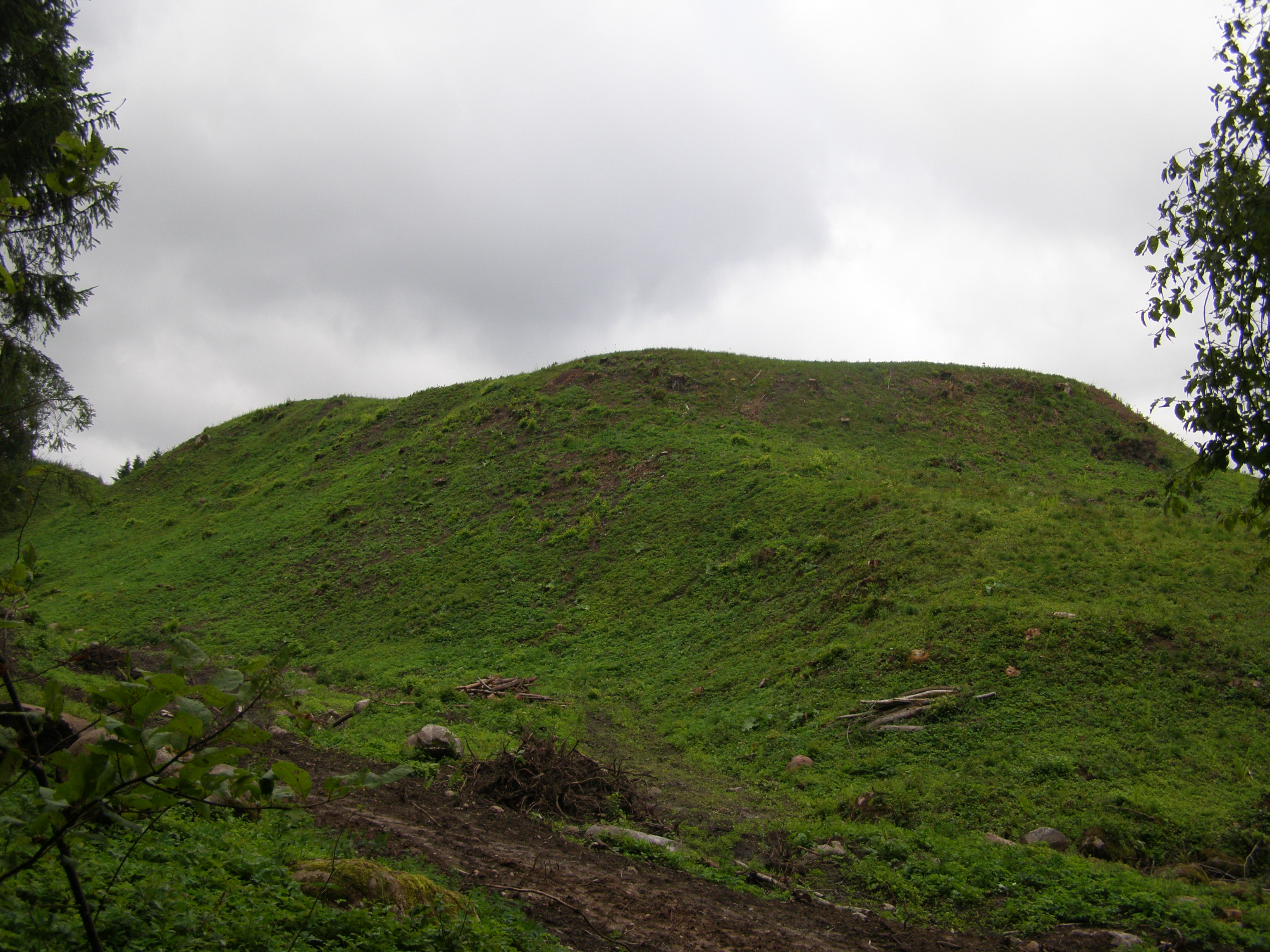 Kartena hillfort, Kretinga district, LithuaniaLietuvių: Kartenos piliakalnis, Kretingos rajonas, Lietuva